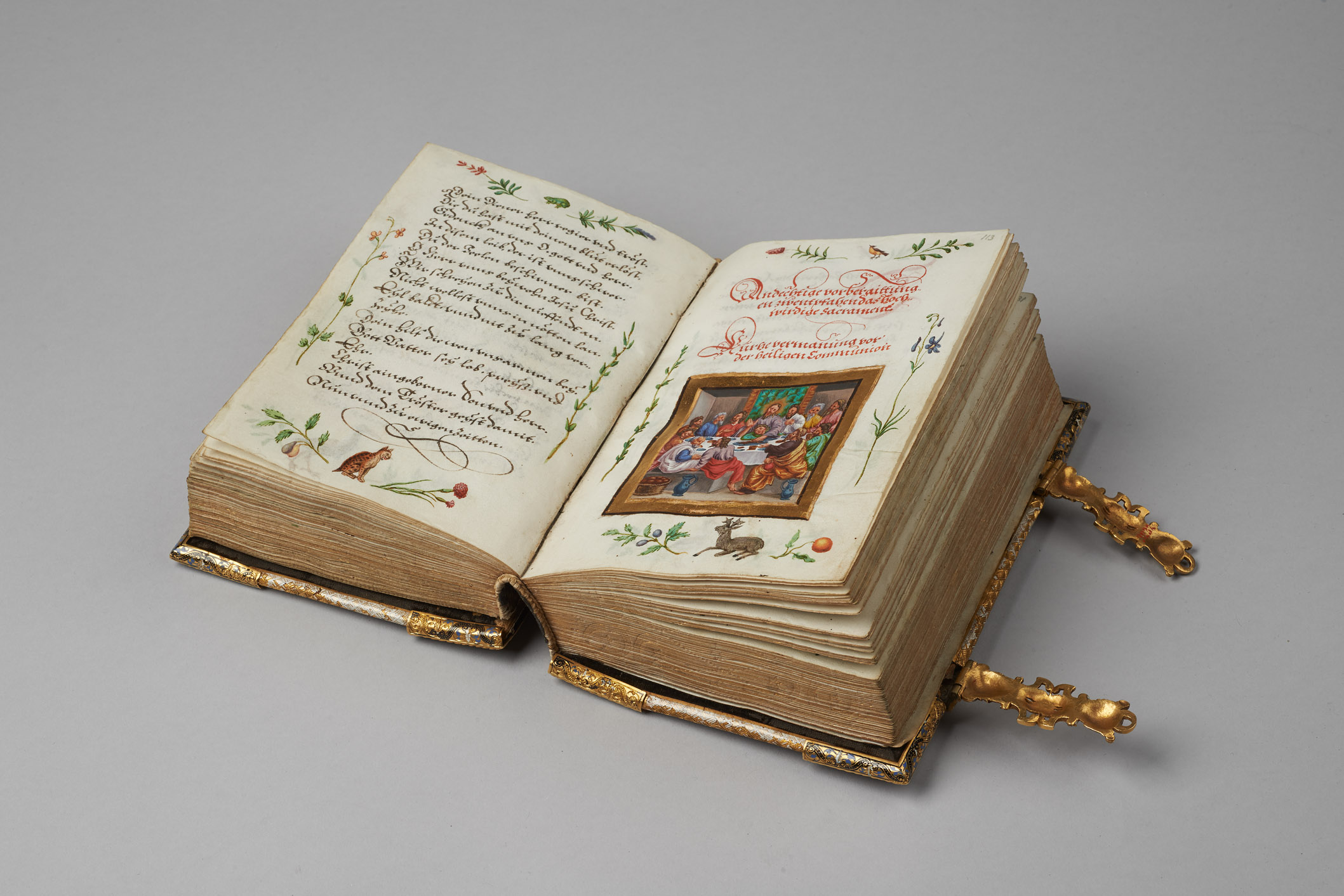 Prayer book belonging to Philippine Welser Prague or southern German, 1557–1560 Vienna, Kunsthistorisches Museum, Kunstkammer, inv. no. KK 3232 (Schloss Ambras Innsbruck) [Ambras Castle Innsbruck]